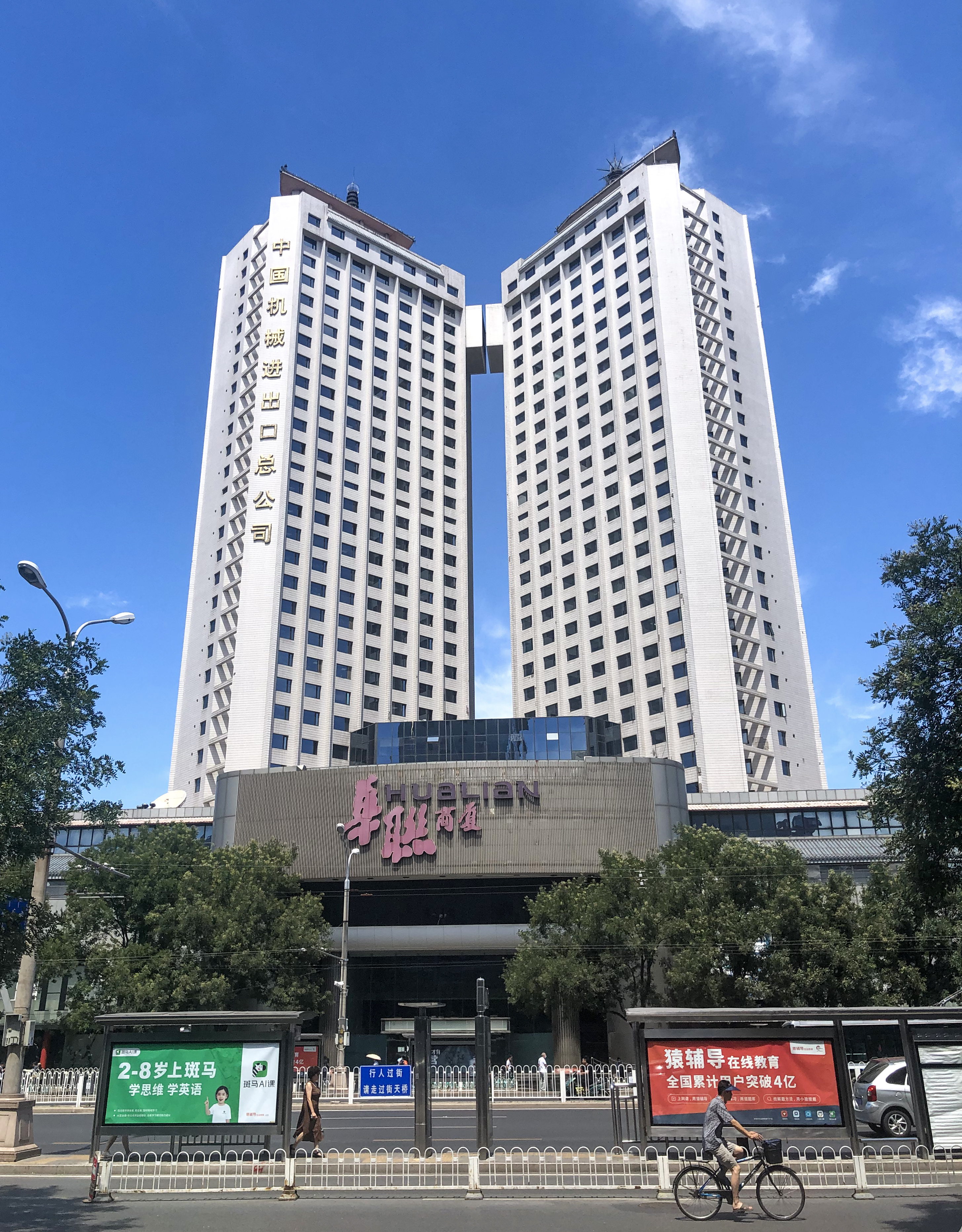 The west wing is home to China National Machinery Import & Export Corporation, and the right wing... BHG headquarters?